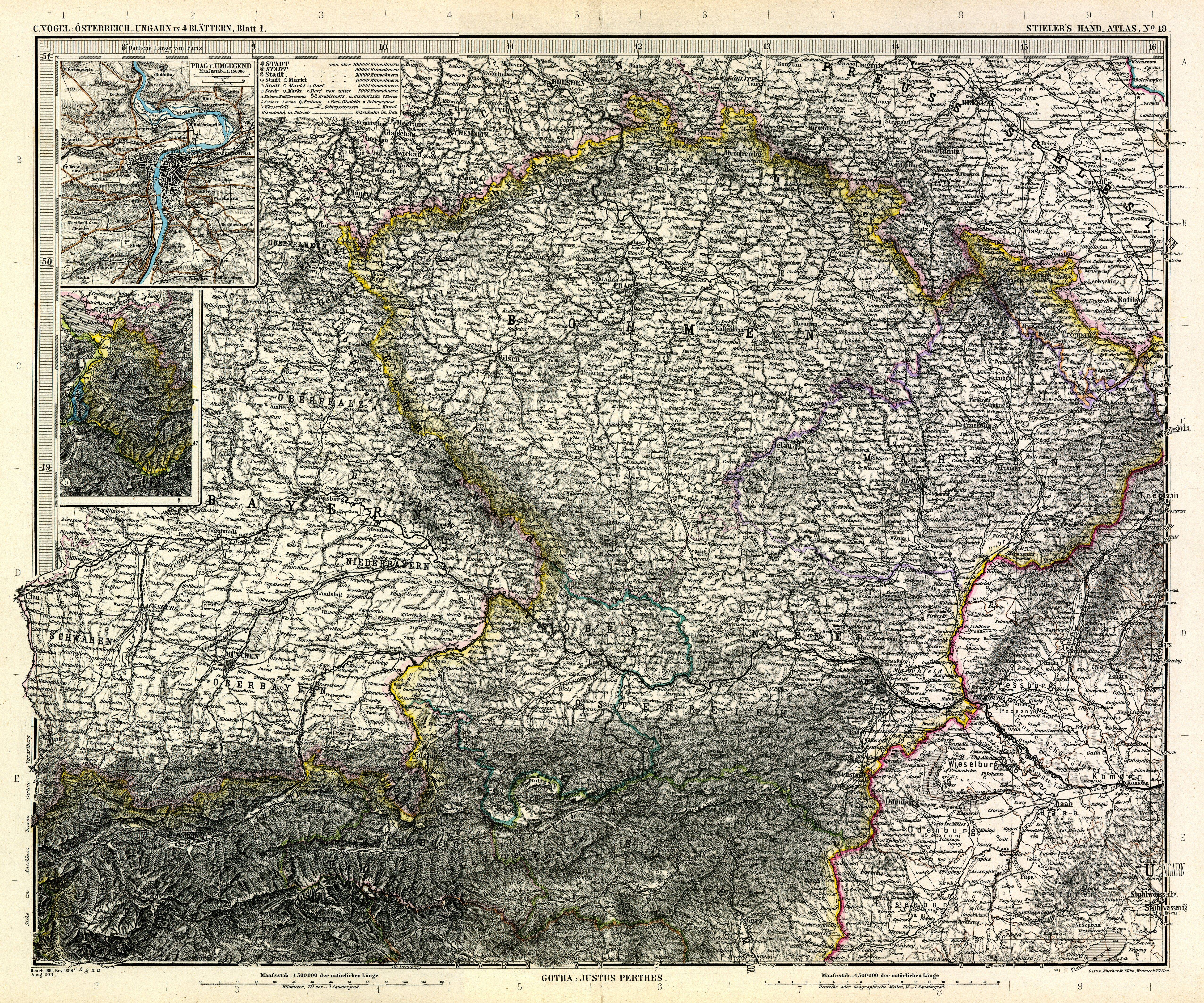 Austria-Hungary in 4 sheets, sheet 1